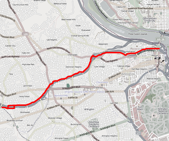 Map of the Custis Trail. Image has been modified from its original form (trail has been highlighted with a red line and rest of image has been desaturated). This map may be incomplete, and may contain errors. Don't rely solely on it for navigation.